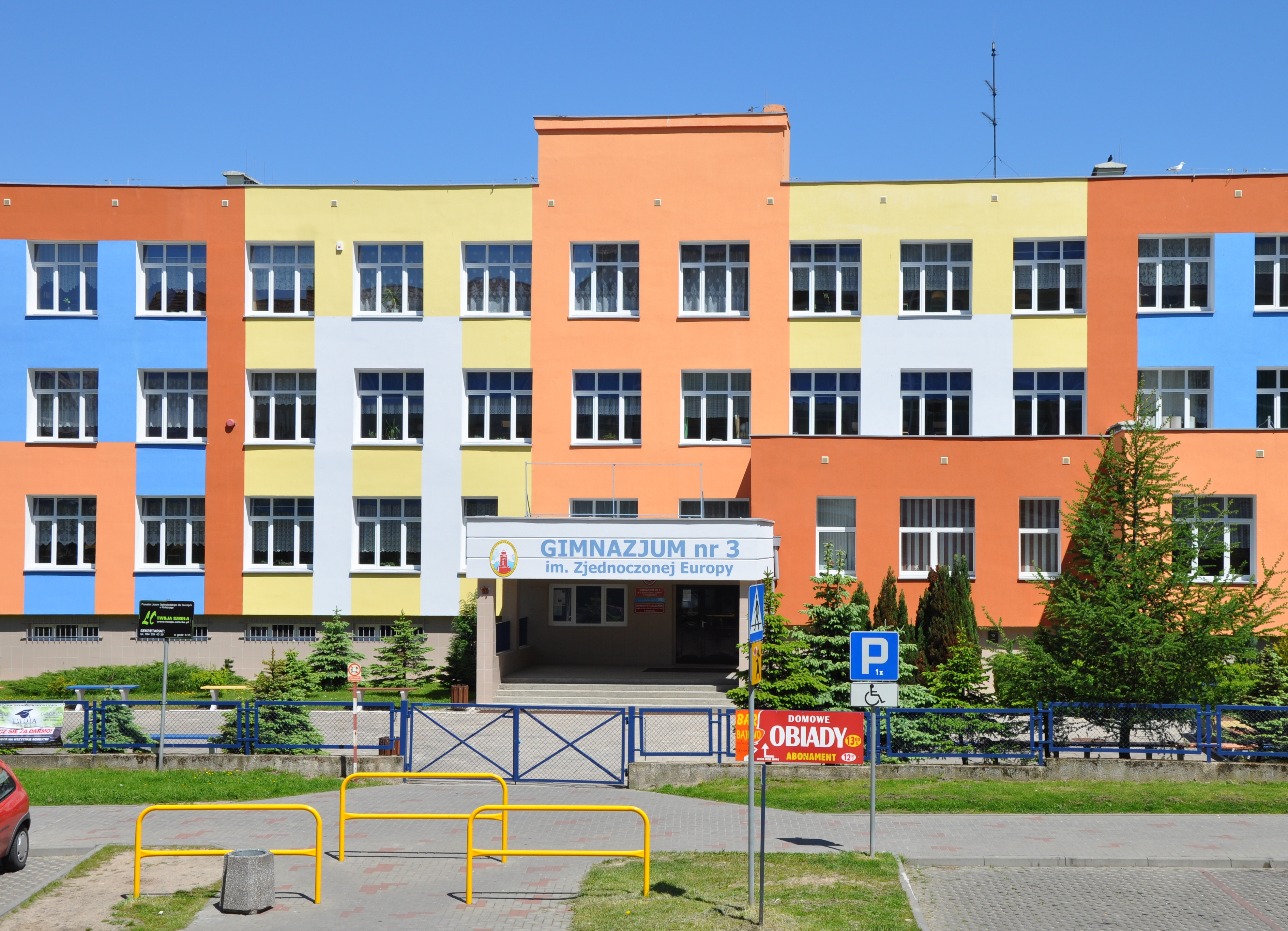 Junior High School No. 3 of United Europe in Kołobrzeg, Poland